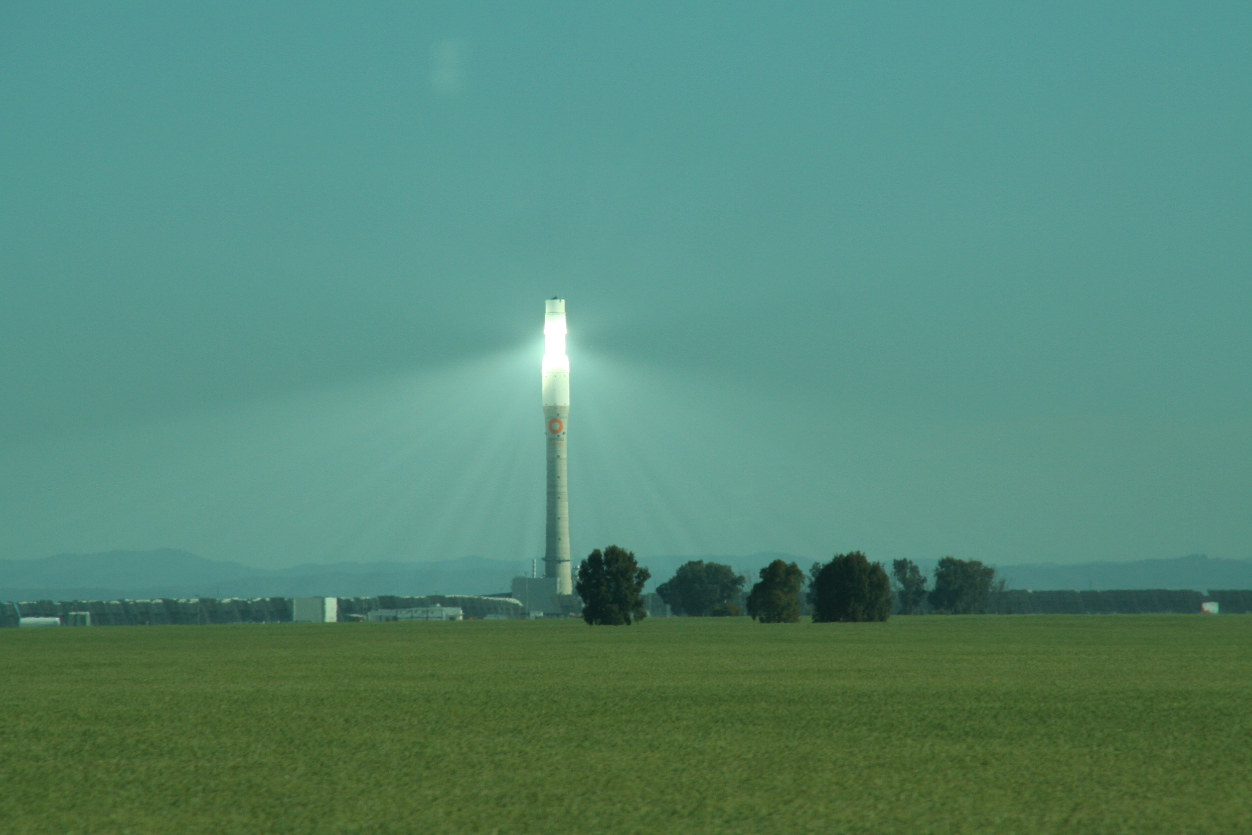 Thermo-solar power station Gemasolar near Seville/Spain. The bright light is visible over a long distance (own experience: about 30km).